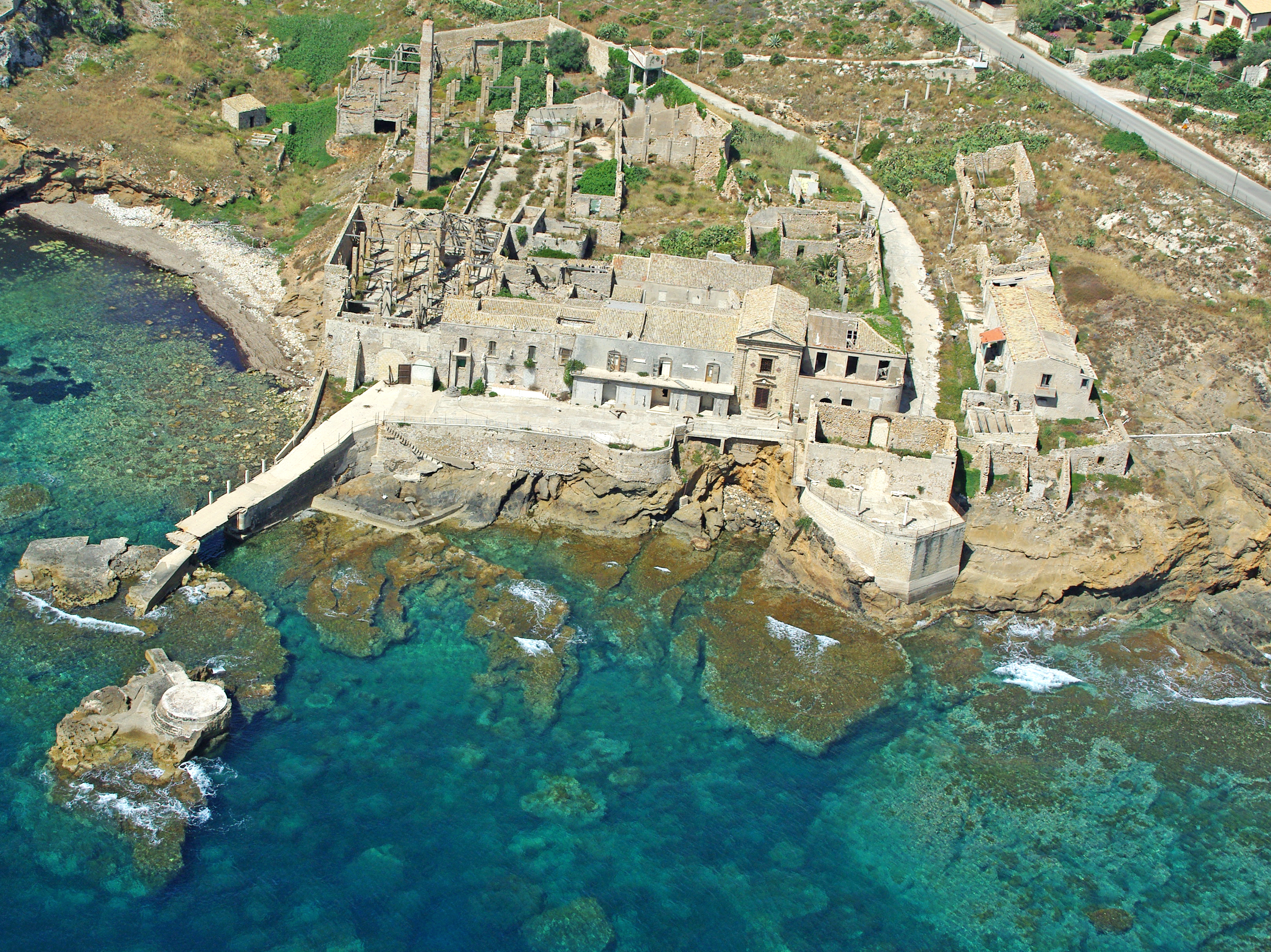 Sicily, Italy